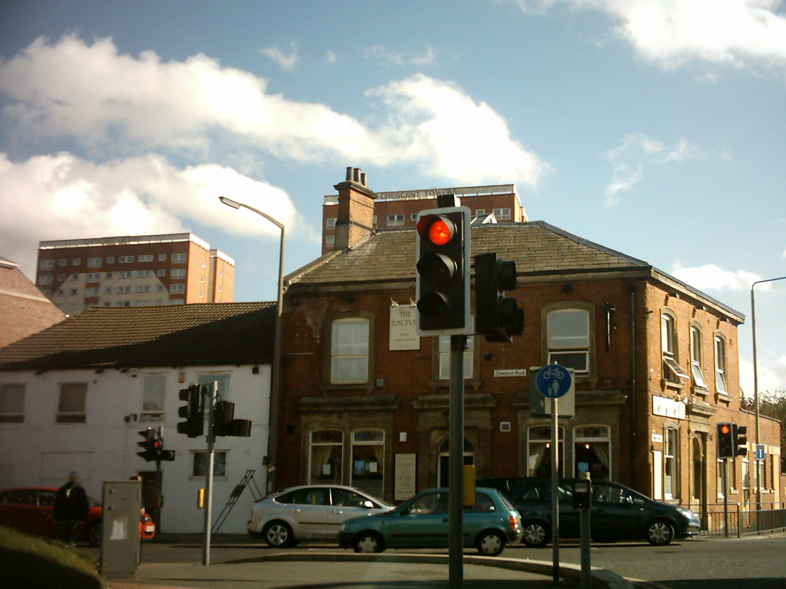 The Junction PH, Crescent Grange and Crescent Towers in Beeston, Leeds.